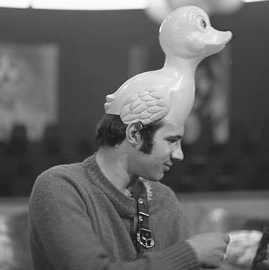 Bonzo Dog Doo-Dah Band in Fenklup (Dutch TV), 7 June 1968. Probably Neil Innes.